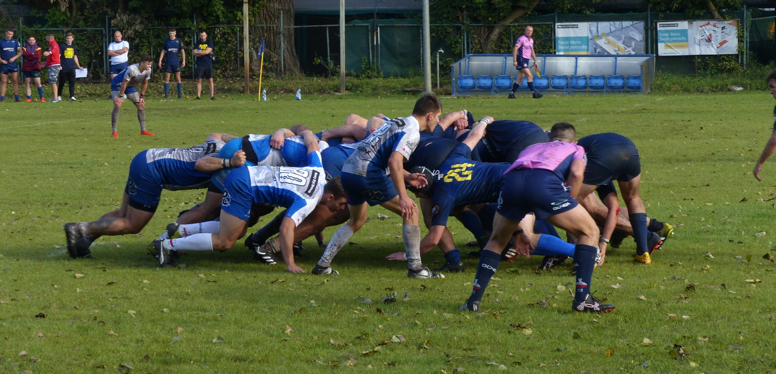 Polish rugby union league match: Juvenia Kraków - Arka Gdynia, 22.09.2018